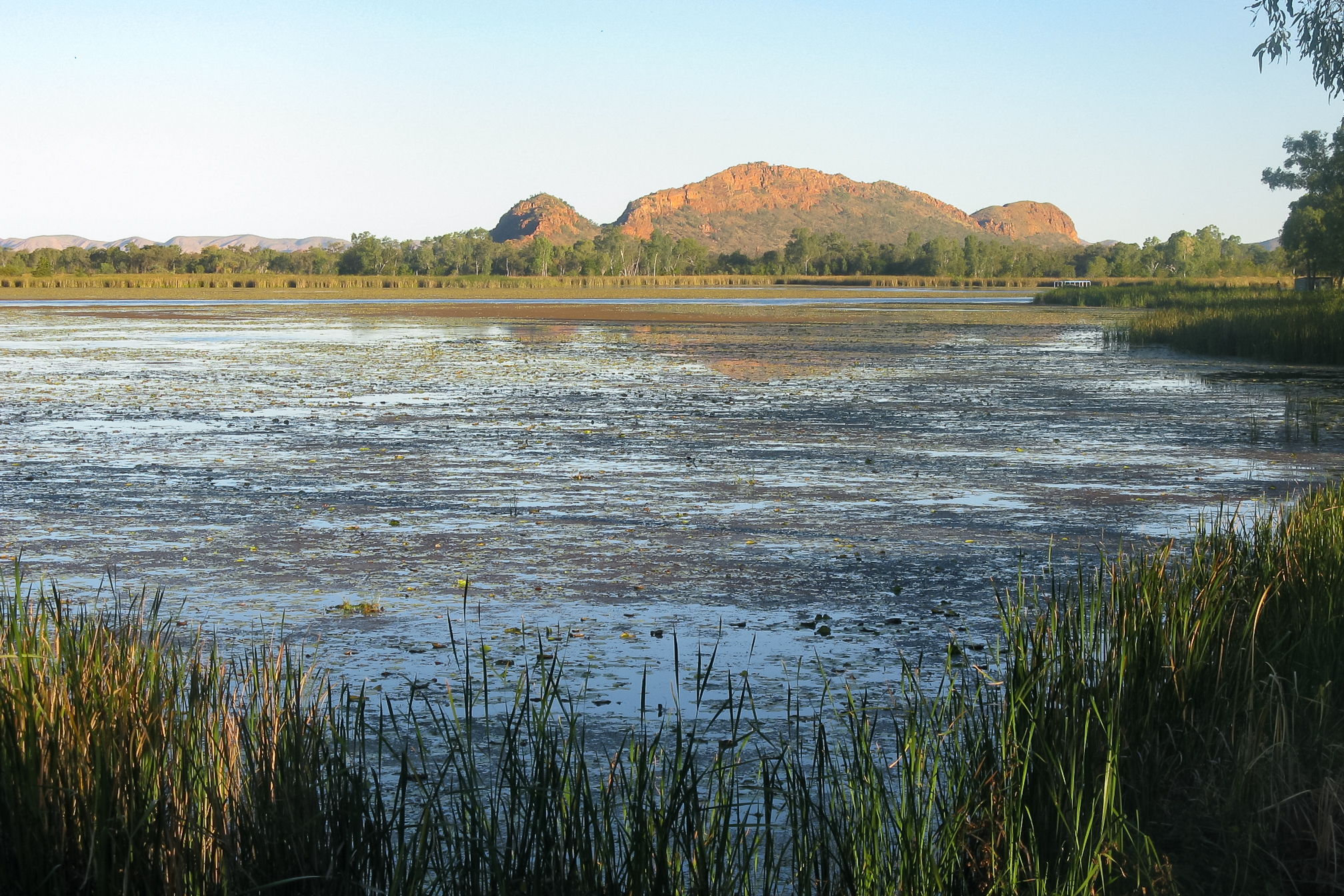 Lake Kununurra, Kimberley/Australia